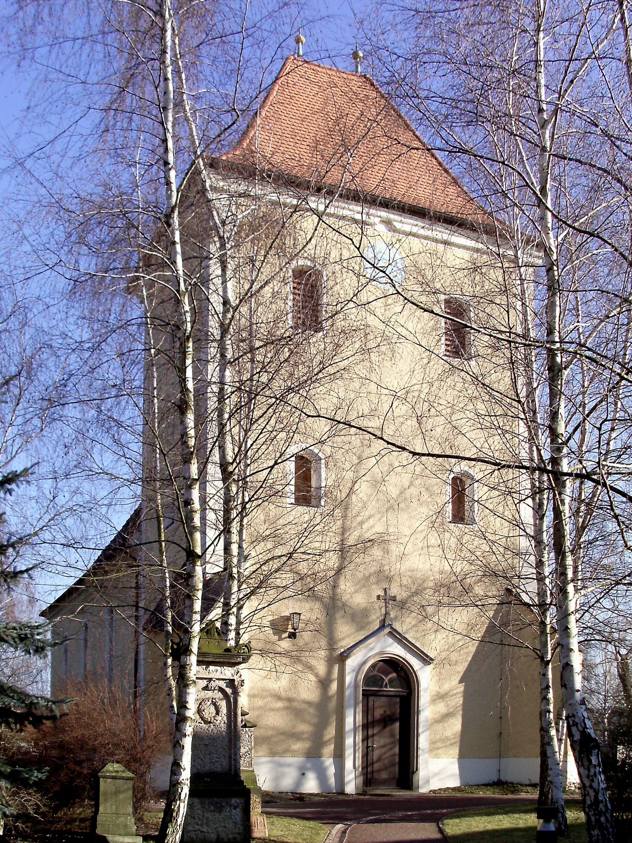 Church of the village of Hohenheida (Leipzig, Saxony)